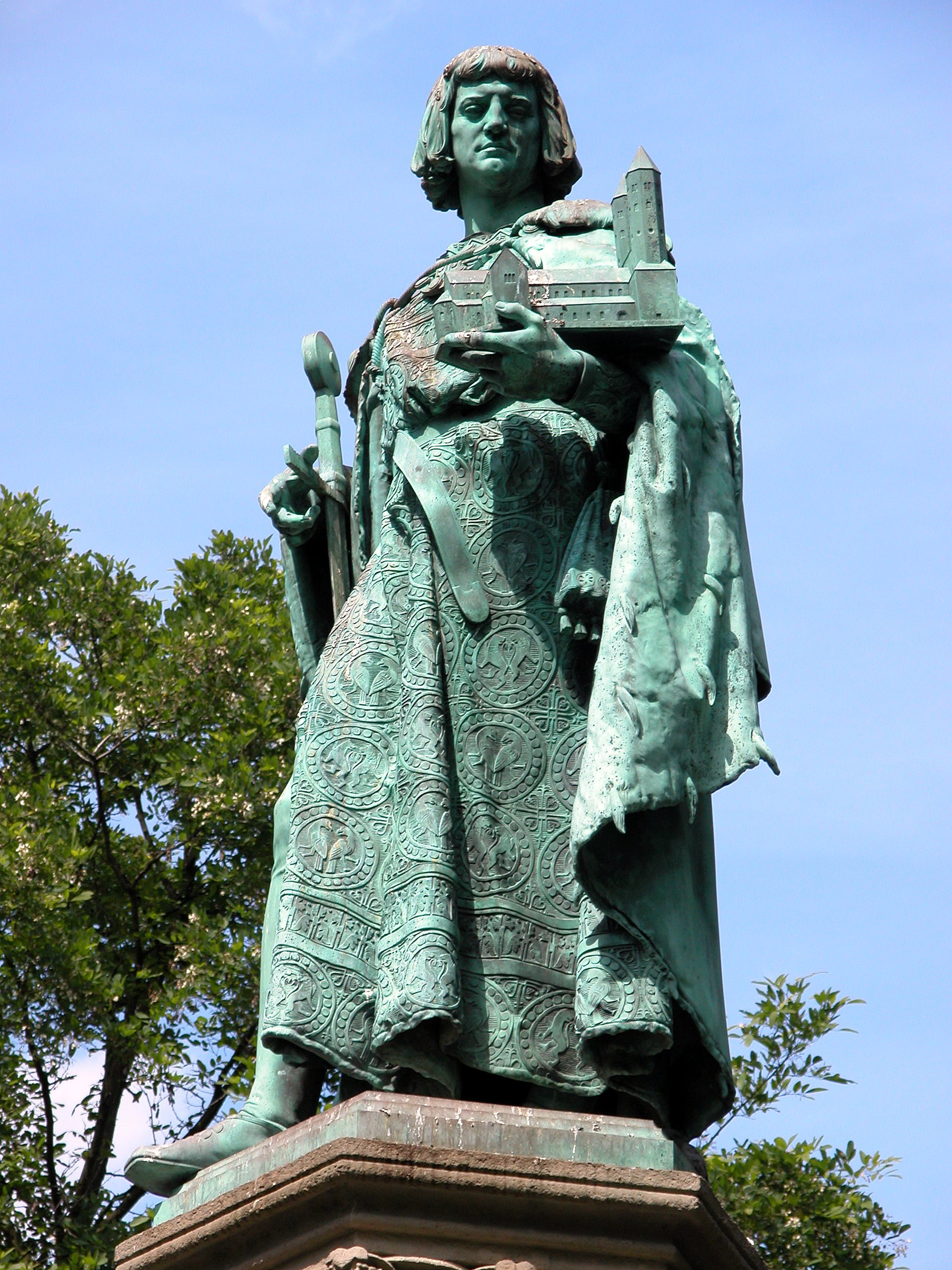 Braunschweig, Germany: Henry the Lion on Henry’s Fountain.